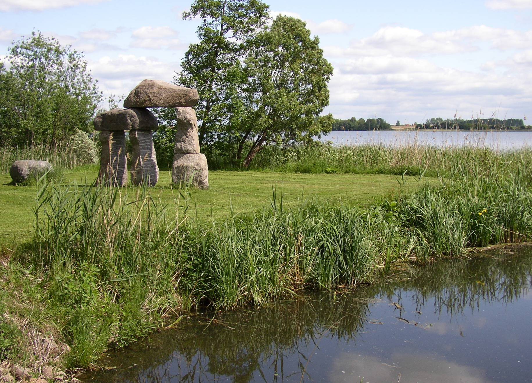 Promenade of Sculptures in Angermünde in Brandenburg, Germany